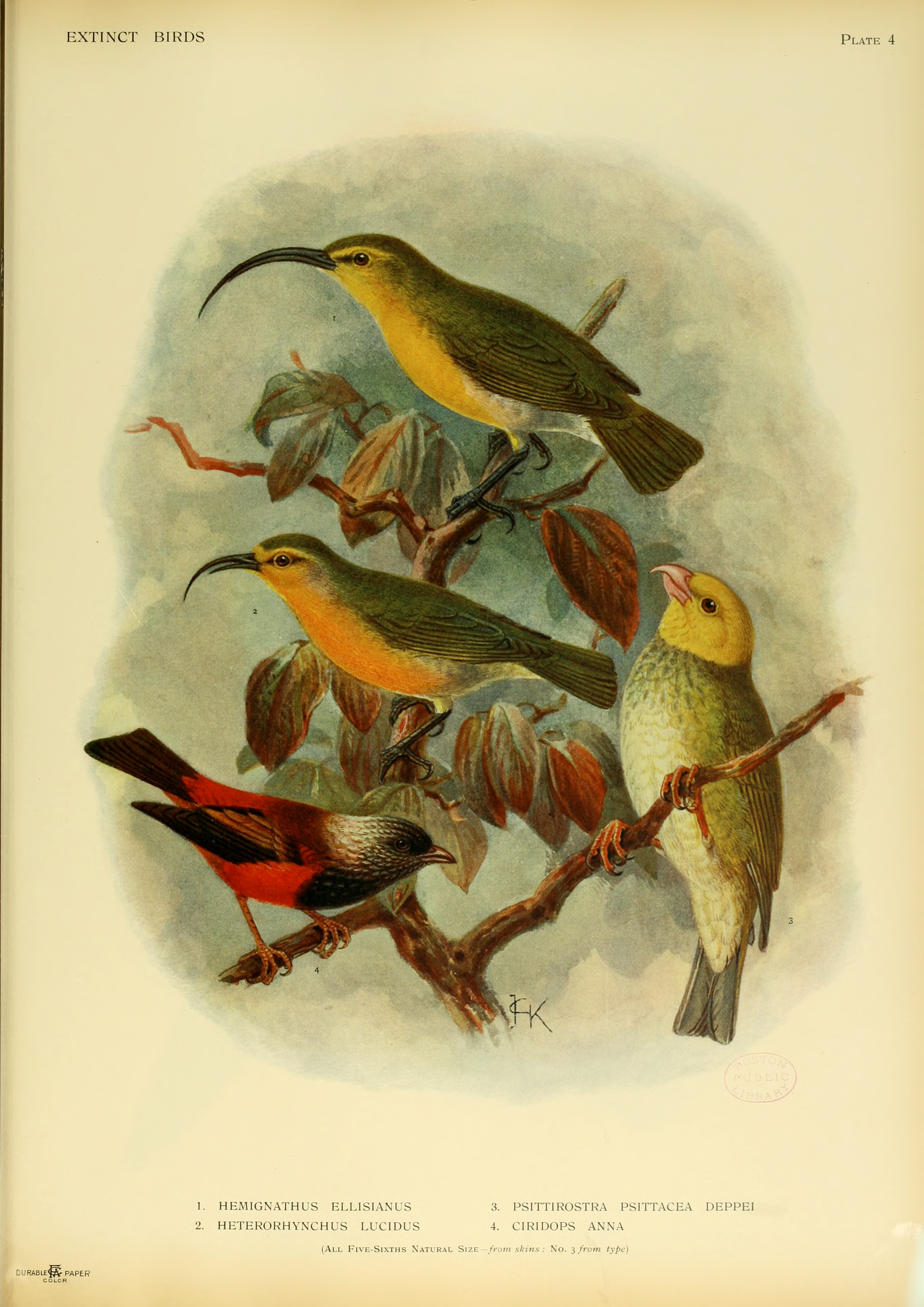 1. Hemignathus ellisianus; 2. Heterorhynchus lucidus; 3. Psittirostra psittacea deppei; 4. Ciridops anna